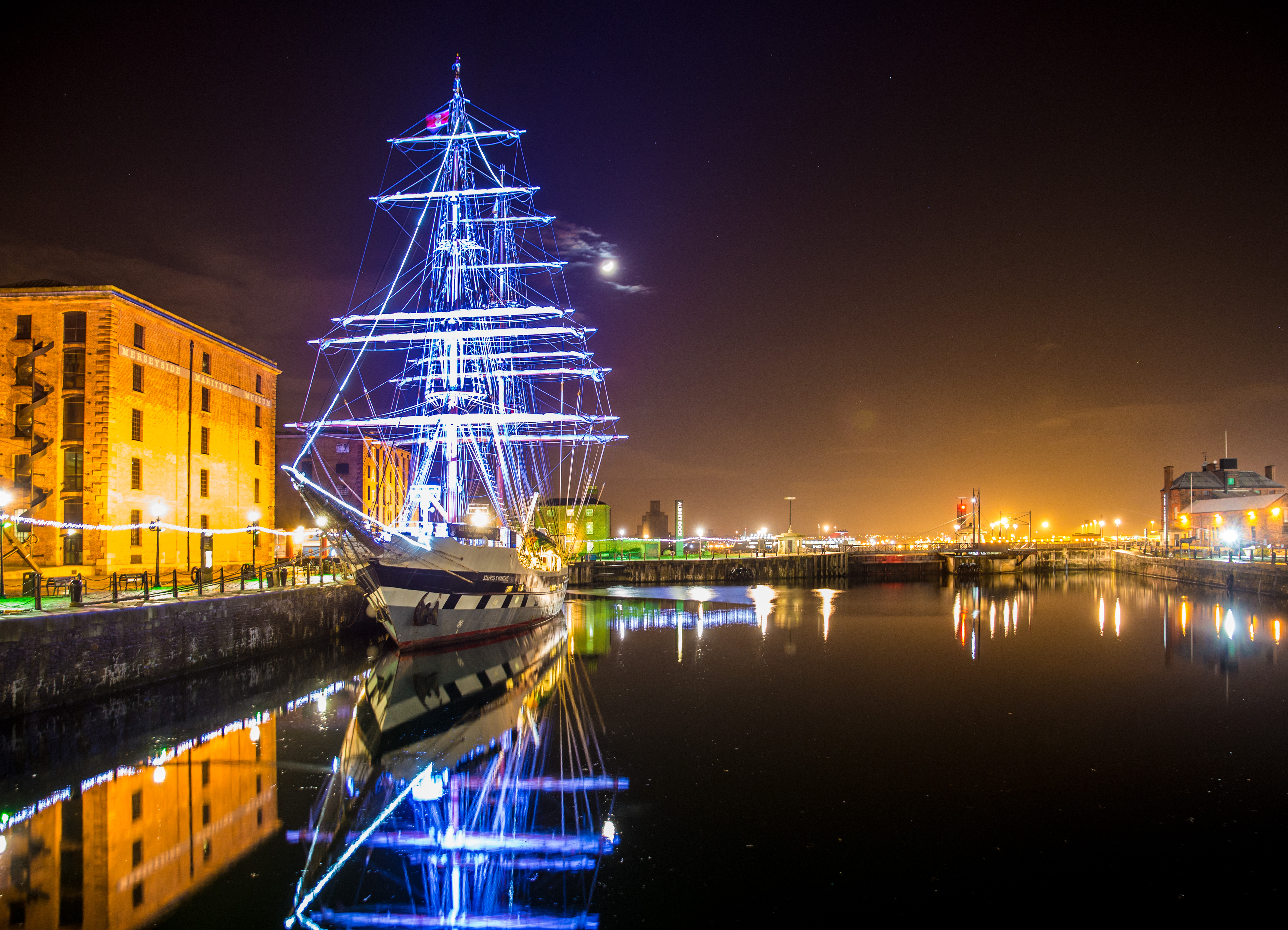 Illuminated brig-rigged tall ship "Stavros S Niarchos" in Albert Dock, Liverpool on Dec 27, 2014